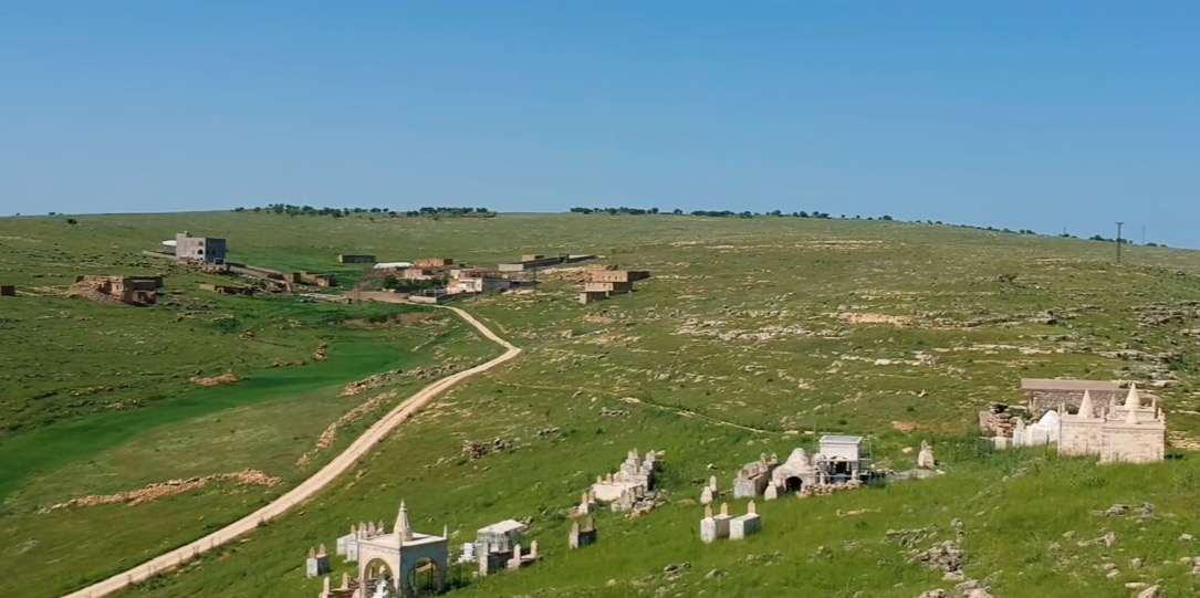 Yazidi village Koçan in Turkey